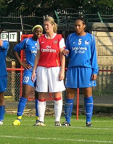 BCLFC vs Arsenal in the FA league cup, season 2006/07. For more details go to